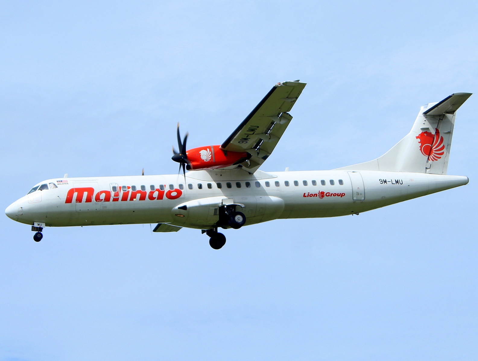 Arriving from Penang as OD328